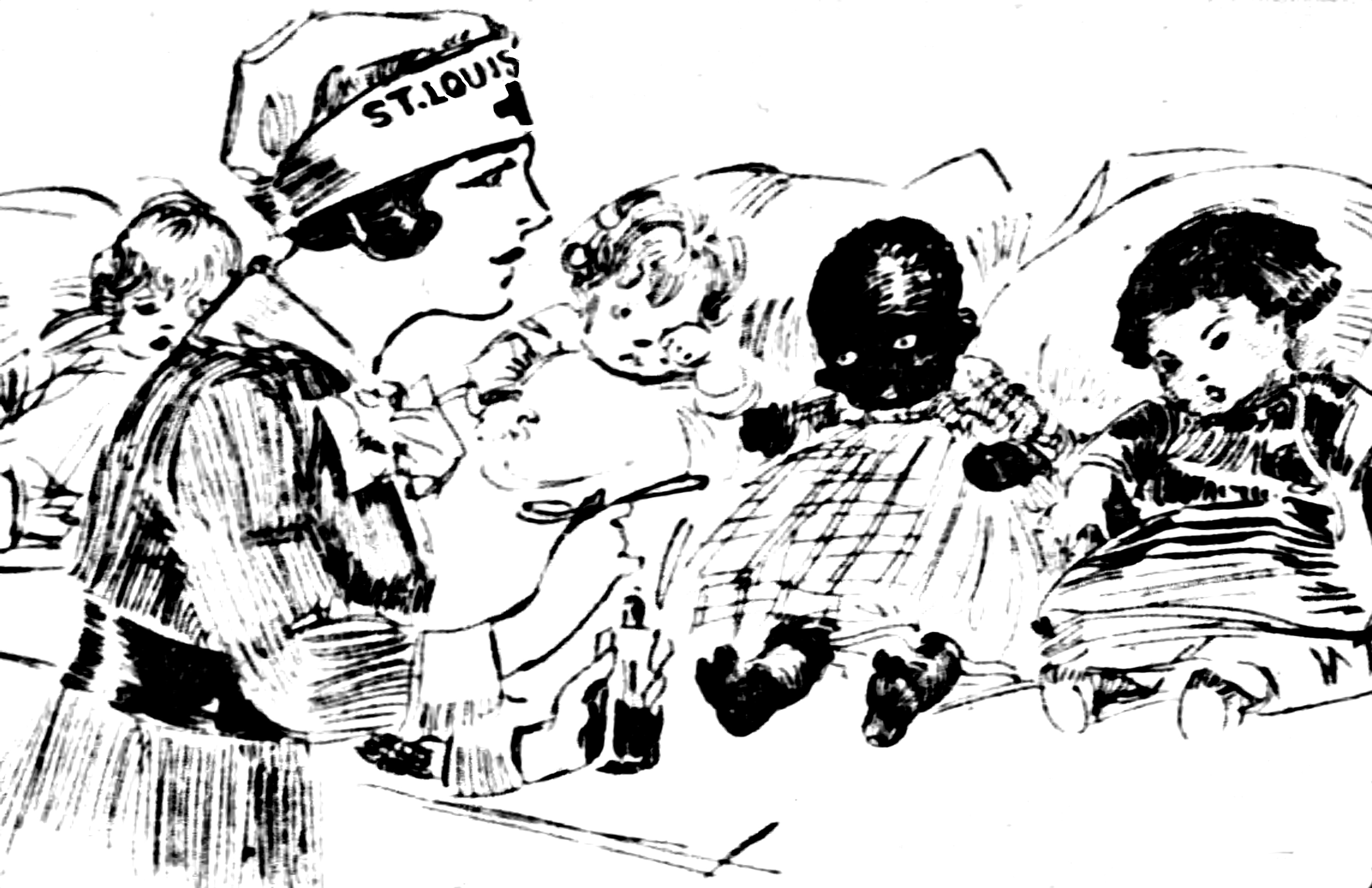 Drawing byMarguerite Martyn of a visiting nurse with medicine and four babies, published in the St. Louis Post-Dispatch, February 12, 1918